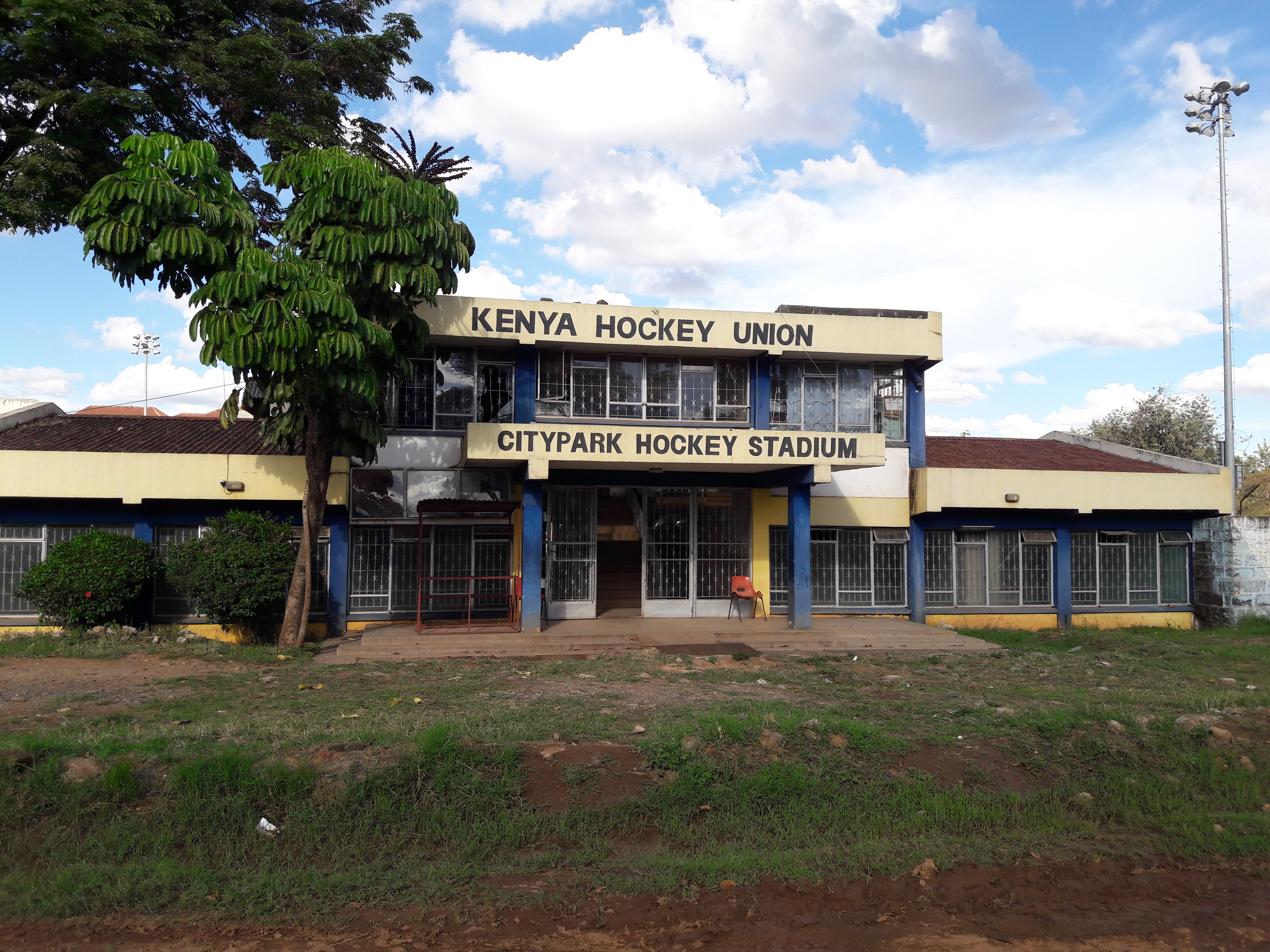 Kenya Hockey Union and entrance to the City Park Hockey Stadium in Nairobi, Kenya.